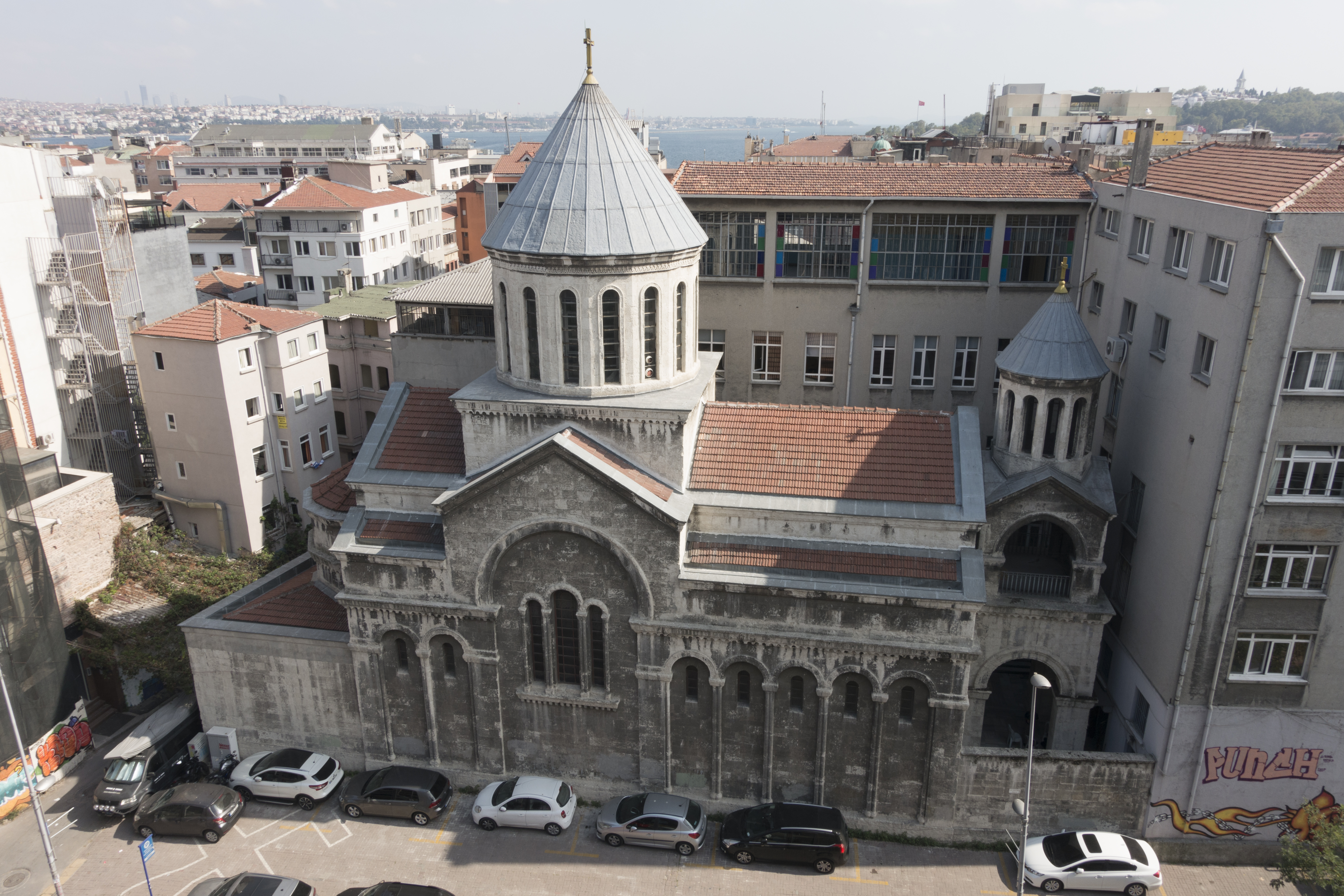 During a Istanbul Bienali a building opposite could be visited. This is the result.